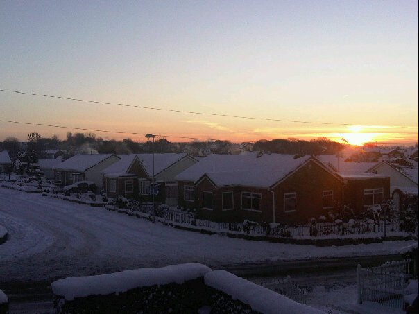 Sunrise over Whitkirk/Colton, suburbs of East Leeds